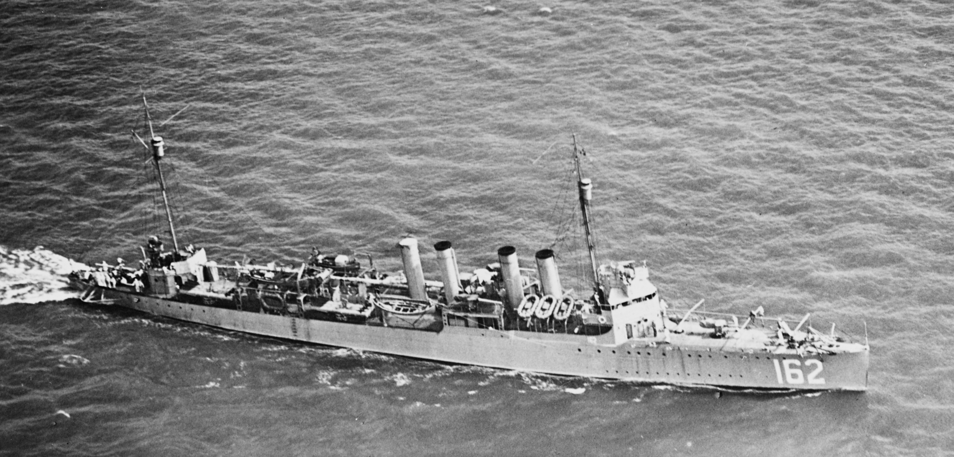 The U.S. Navy destroyer USS Thatcher (DD-162) underway, circa 1919-1921.